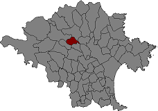 Location of Biure in Alt Empordà